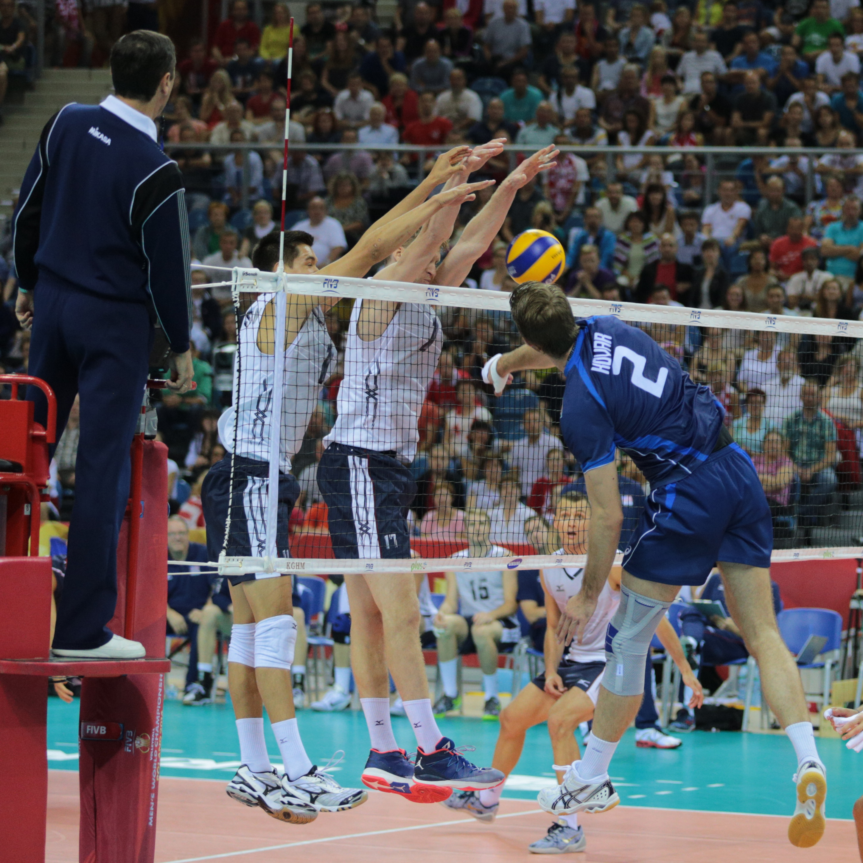 Jiří Kovář (#2) during Men's World Championship Poland 2014, playing against USA in Kraków. Blocking: Micah Christenson (#11), Maxwell Holt (#17) Referee: Andrey Zenovich Also on the floor: Paul Lotman (#6)